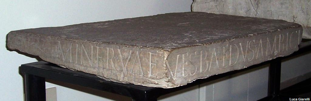 Dedication to Minerve, Archeological museum of Valle Camonica, Cividate Camuno